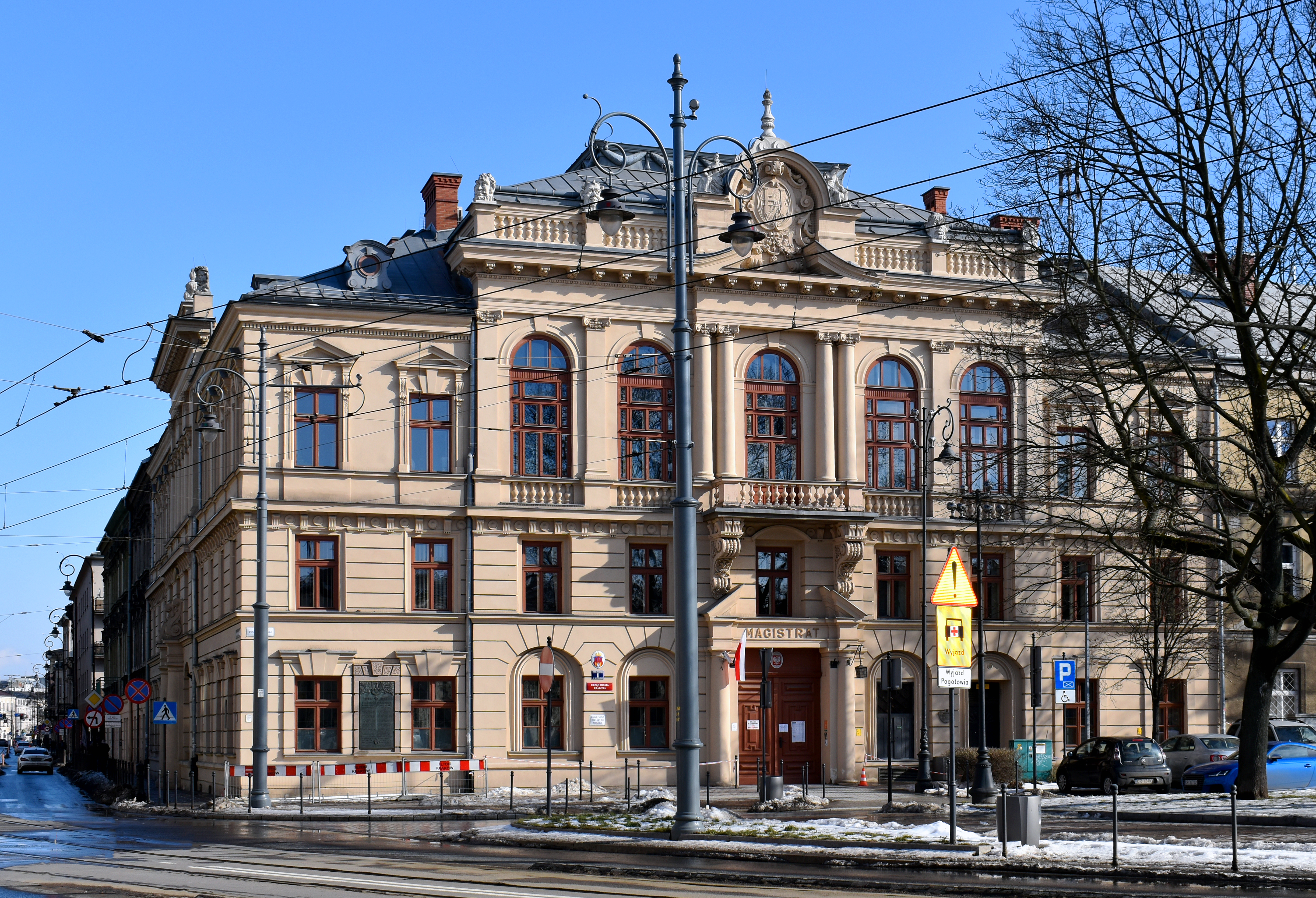 Podgorze City Hall (new), 1 Rynek Podgórski, Podgorze, Krakow, Poland